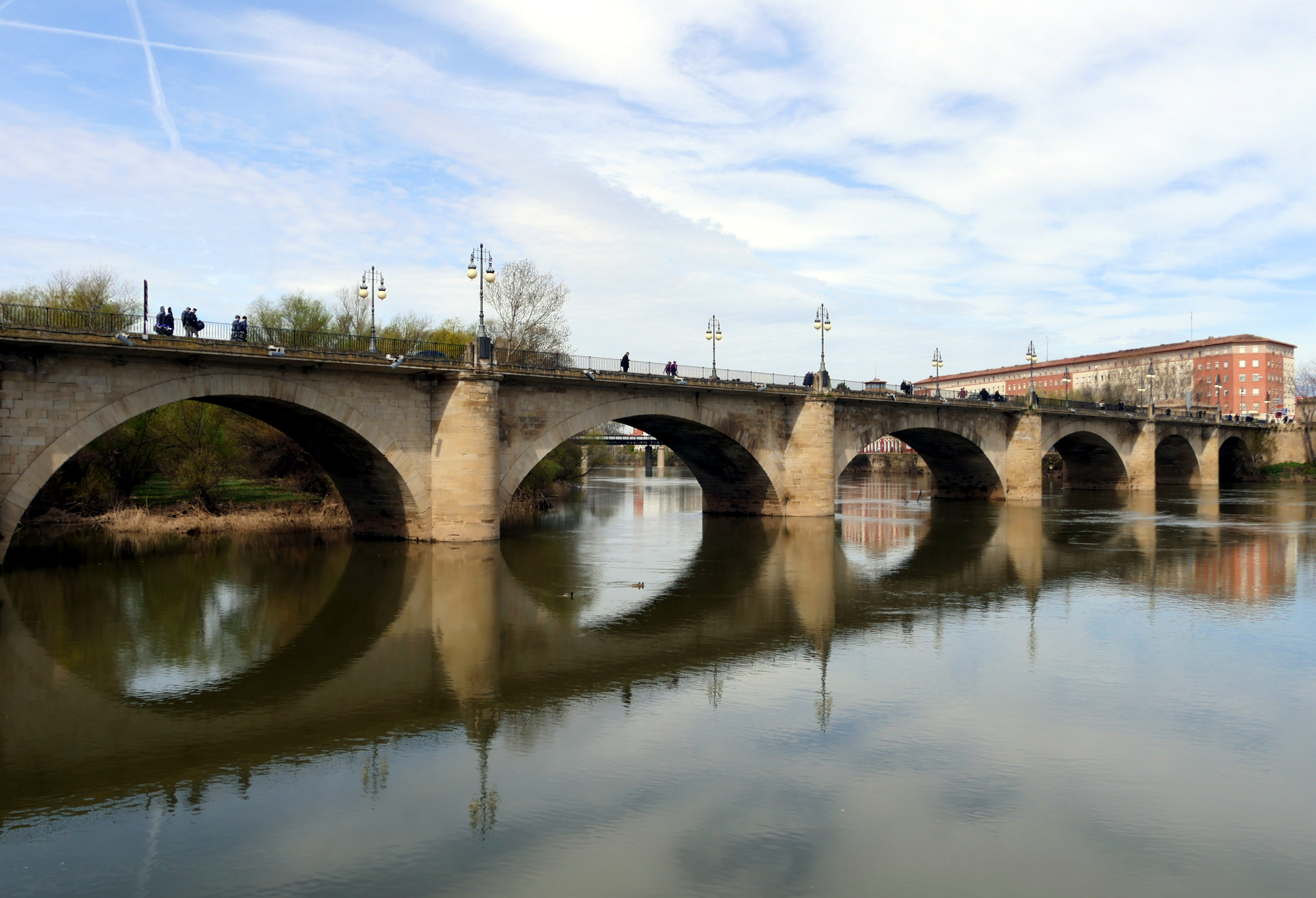 Stone Bridge (Puente de Piedra) over the Ebro River at Logroño, Spain.